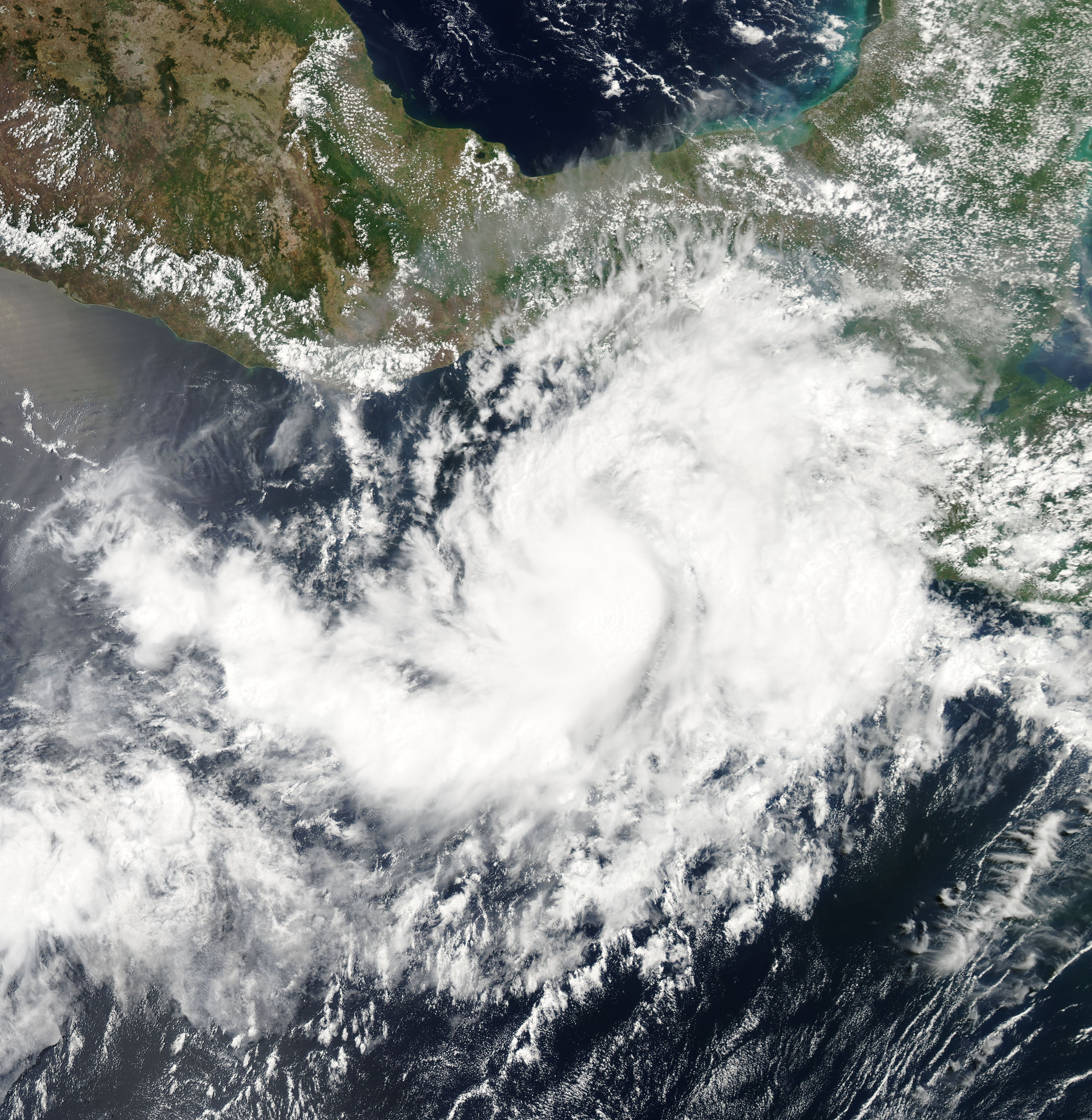 Tropical Storm Barbara at peak intensity near the Gulf of Tehuantepec on June 1, 2007, as imaged by the Aqua satellite.